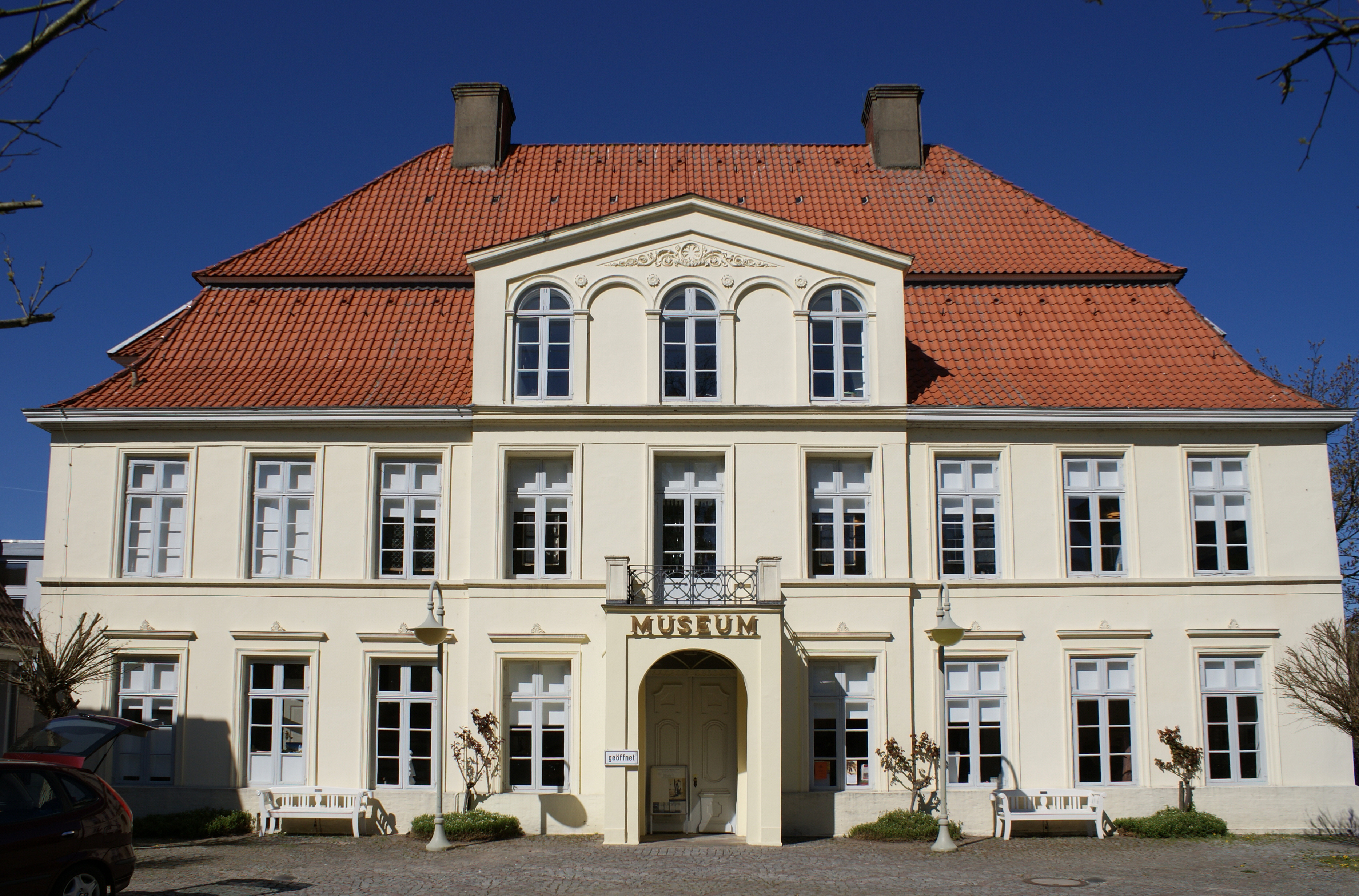 The so called Widow-Palais at Plön